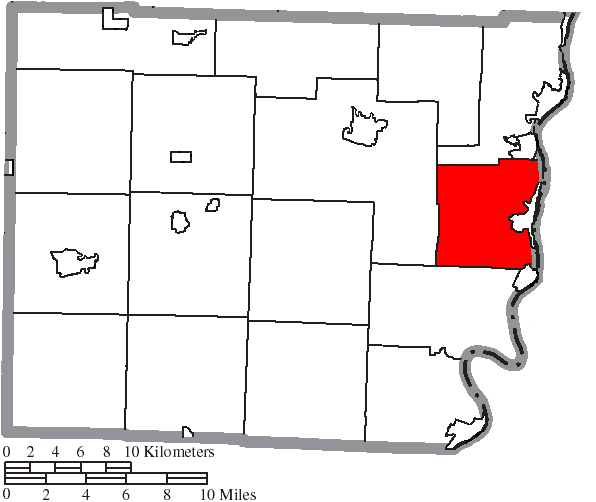 Map of the municipal and township boundaries of Belmont County, Ohio, United States, as of the 2000 census, with the location of Pultney Township highlighted. Township borders are shown only in unincorporated areas in order to differentiate incorporated and unincorporated areas more clearly.